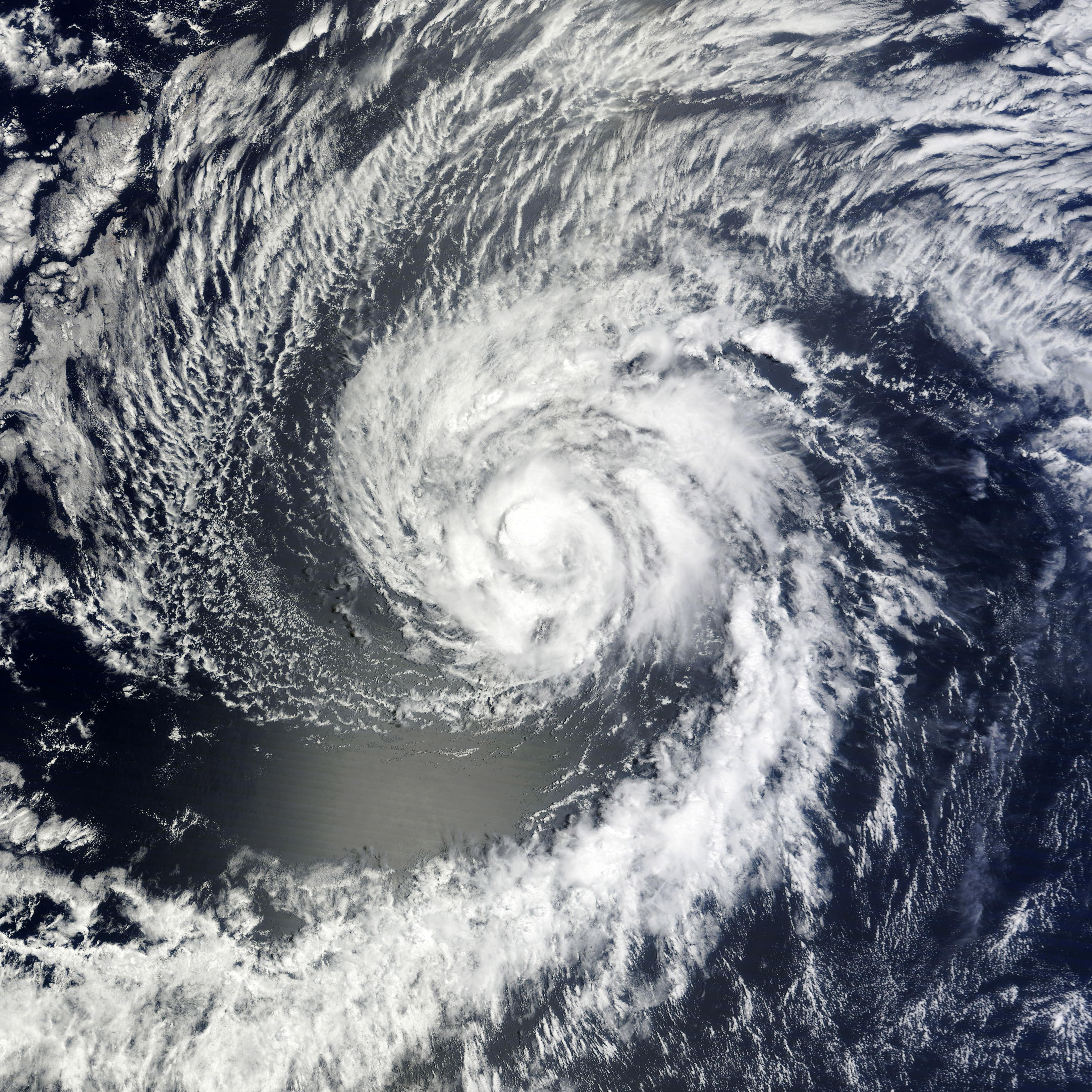 Tropical Storm Fernanda on August 17, 2011